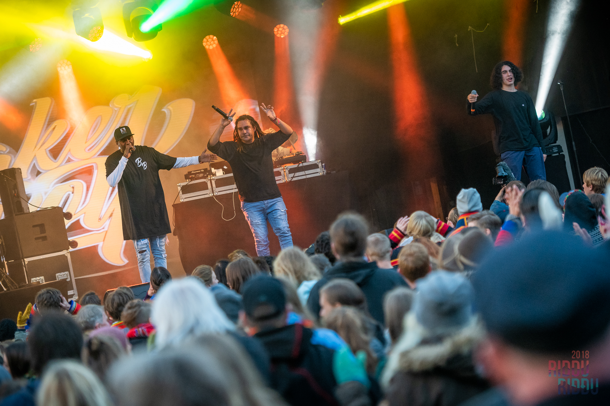 Australian musicians Baker Boy (left), Dallas Woods (centre), and Kian (right) performing at the 2018 Riddu Riđđu festival in Norway